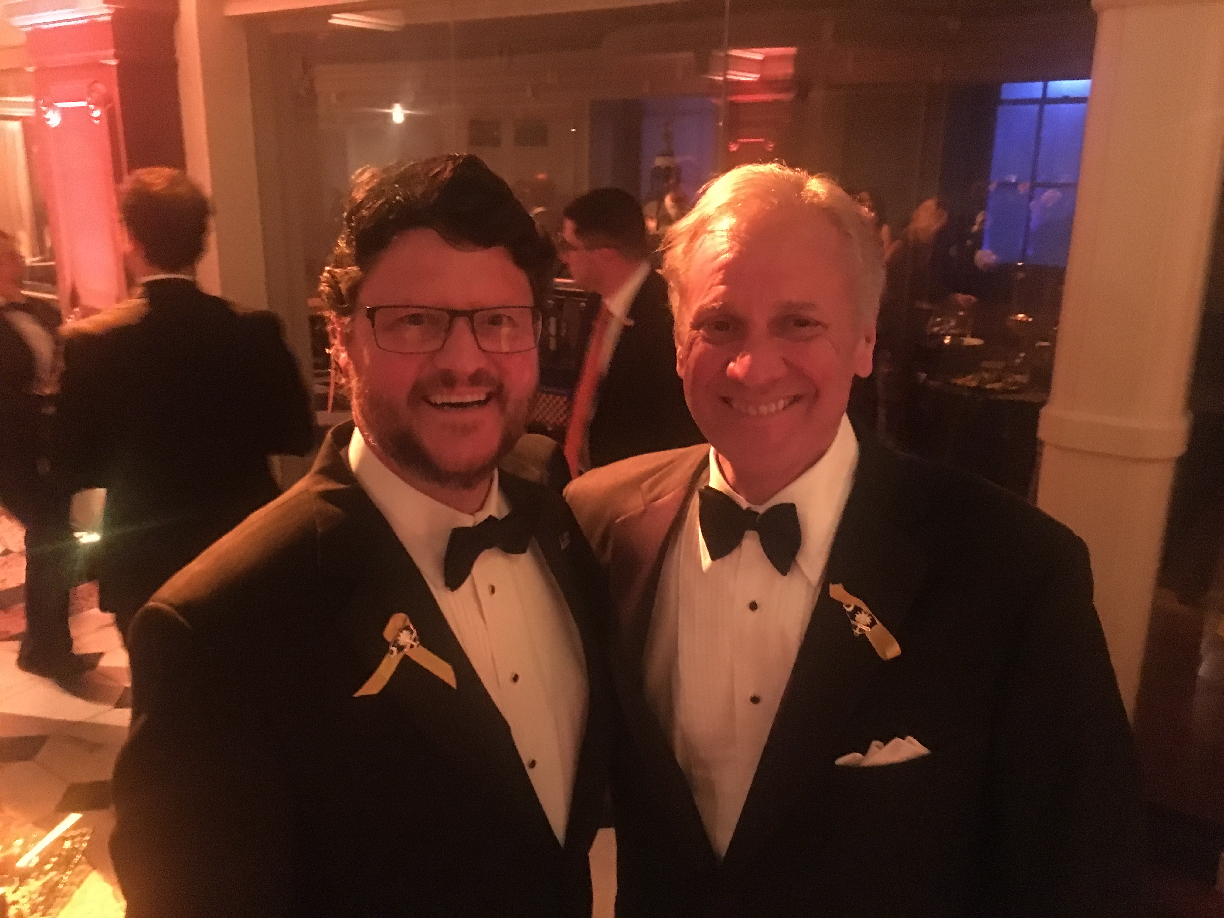 Rep. Simrill with Gov. McMaster at the Governor's inauguration ball.